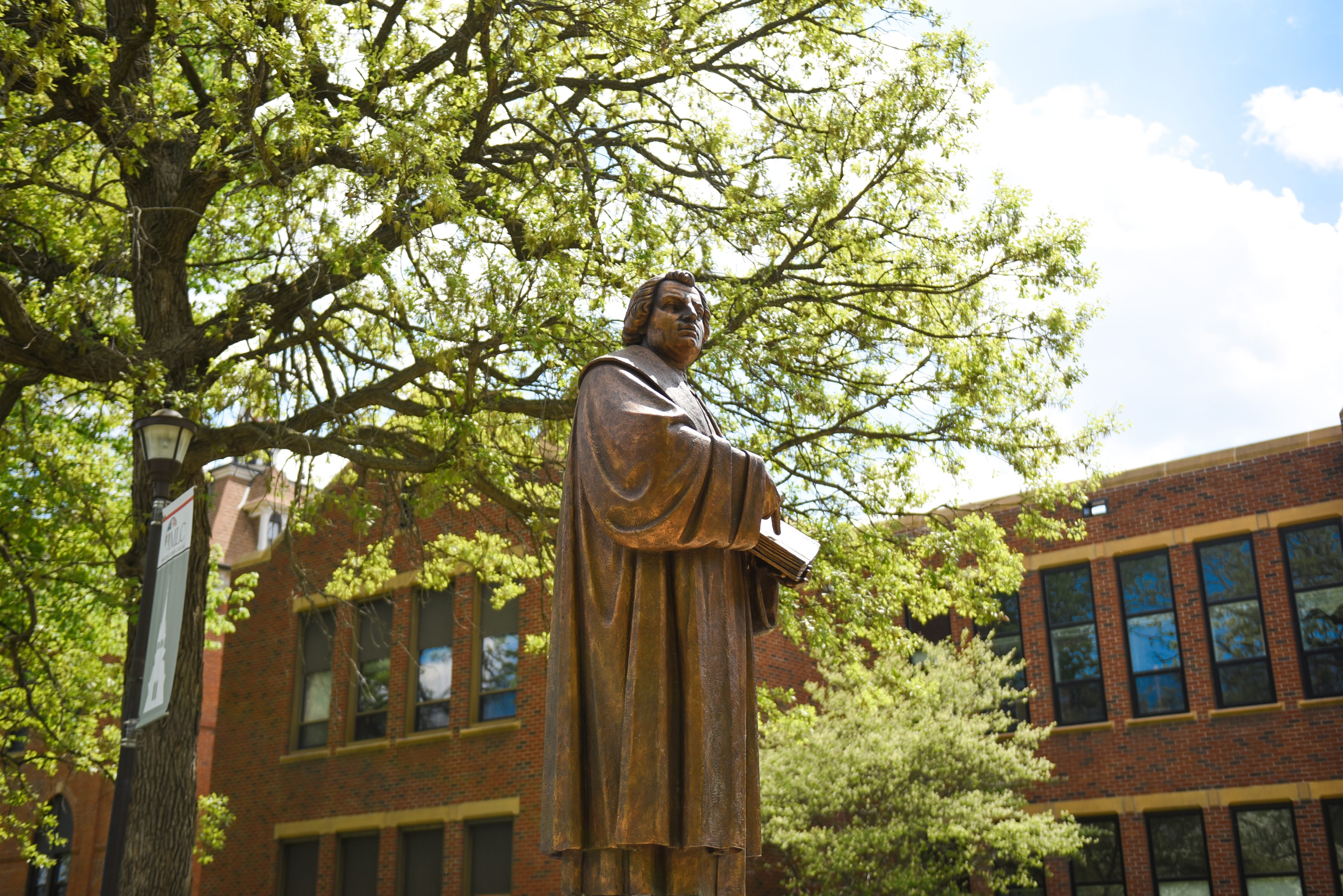 Statue of Martin Luther on Martin Luther College campus. New Ulm, Minnesota. 2018